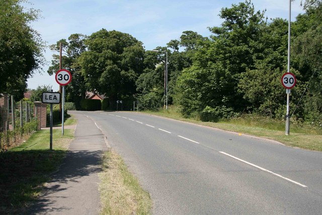 The approach to Lea The view from the Saxilby road entering Lea.